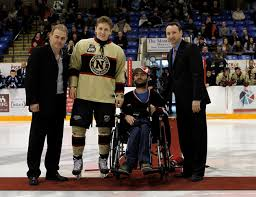 2013 Award Winner of the OJHL Junior A 'Fan Favorite Award'